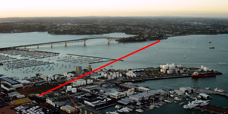 Simplified indicative Second Harbour Crossing tunnel alignment, as recommended in mid 2008 for a new future link across the Waitemata Harbour in New Zealand.